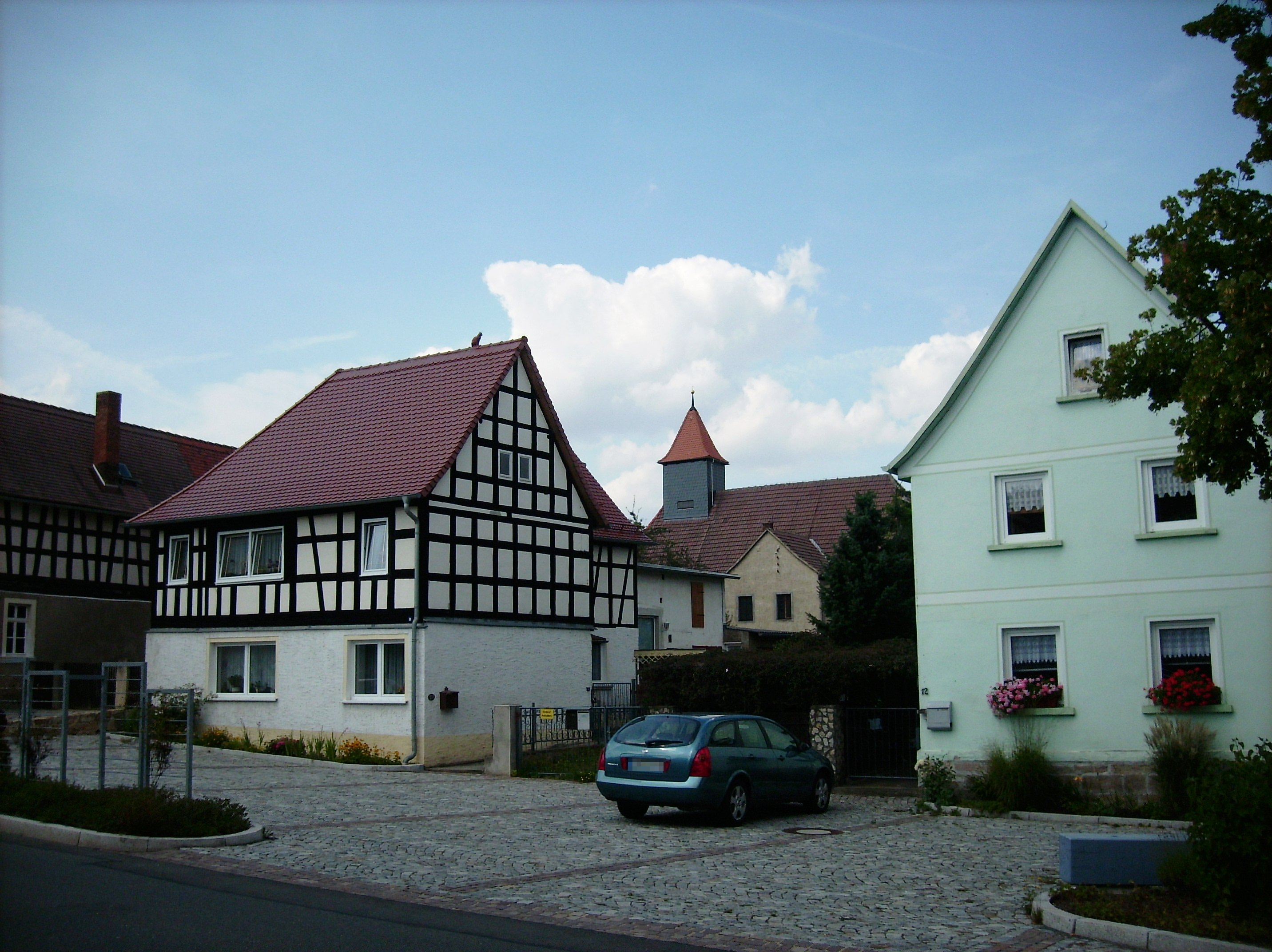 At the church in Saasa (Eisenberg, district of Saale-Holzland-Kreis, Thuringia)